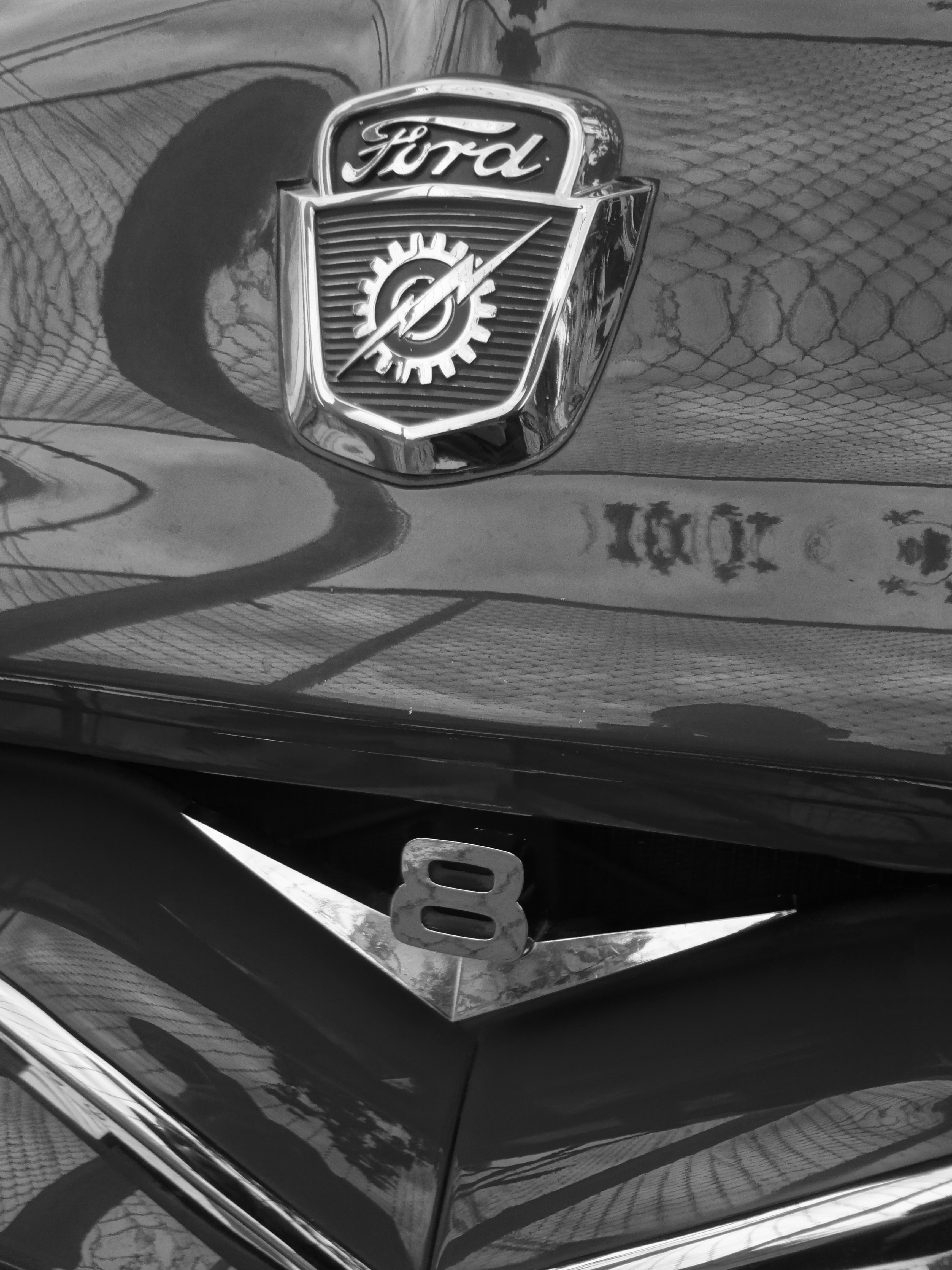 (Antique Red Ford V8) Photography by David Adam Kess